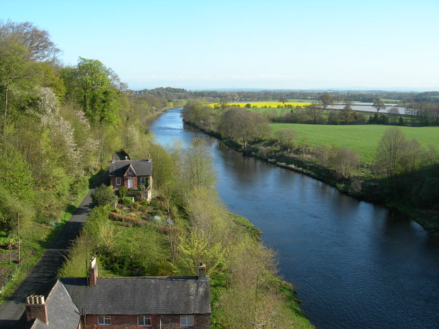 River Eden, Wetheral. Photographer was standing on the footpath that runs along the railway bridge.